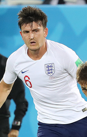 Harry Maguire playing for England against Belgium at the 2018 FIFA World Cup